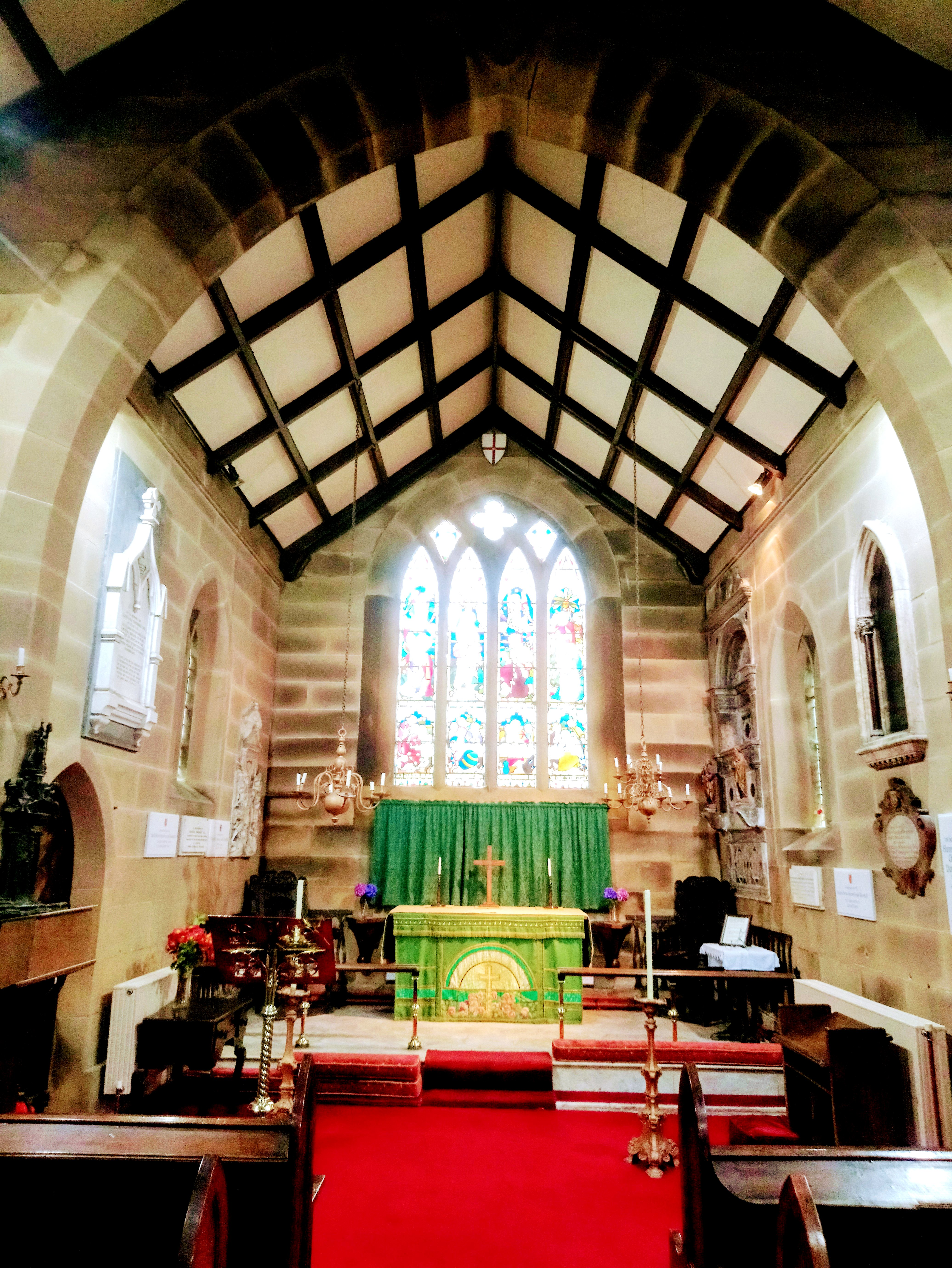 Interior of Holy Trinity Church, Stanton In Peak Photo Taken: 17/10/19 Holy Trinity Church, Stanton-in-Peak is a Grade II listed parish church in the Church of England in Stanton in Peak, Derbyshire